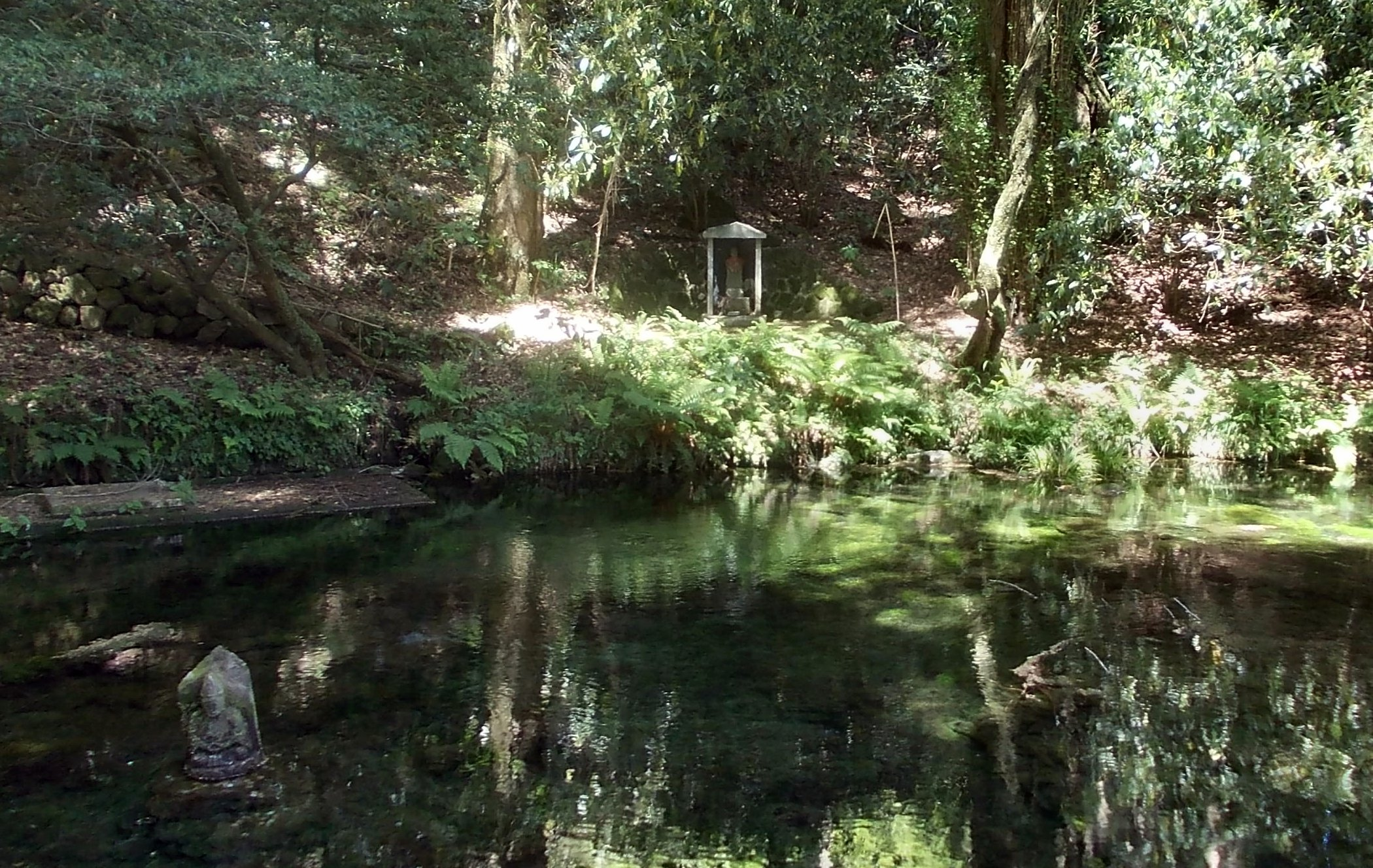 Ikeyama Suigen, Ubuyama, Kumamoto, Japan